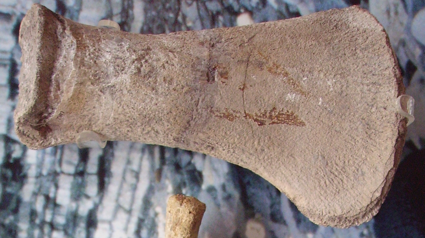 Colymbosaurus (plesiosaur) humerus